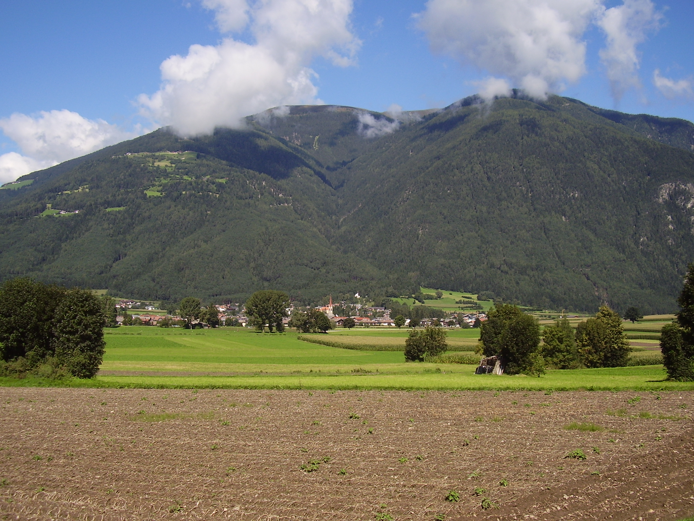 St. Georgen (Bruneck-Italy) under the Mt. Sambock. View from east.